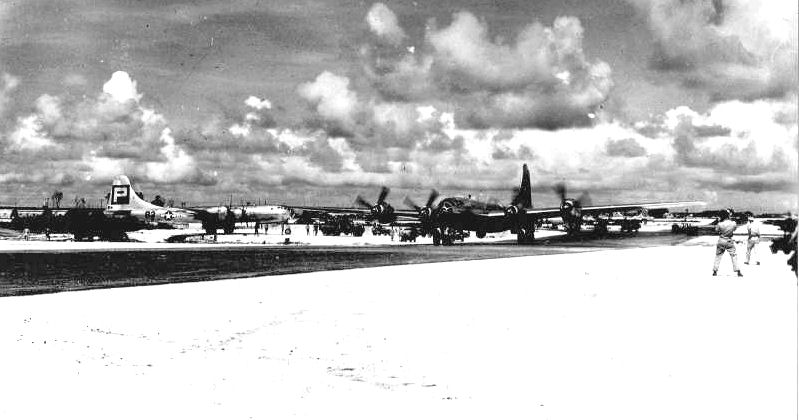 500BG B-29s Tinian, one of them made up to look like a 39th BG aircraft as part of overall deception